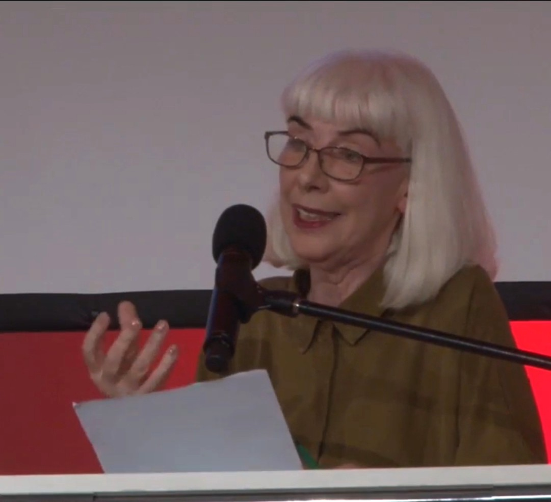 UK feminist